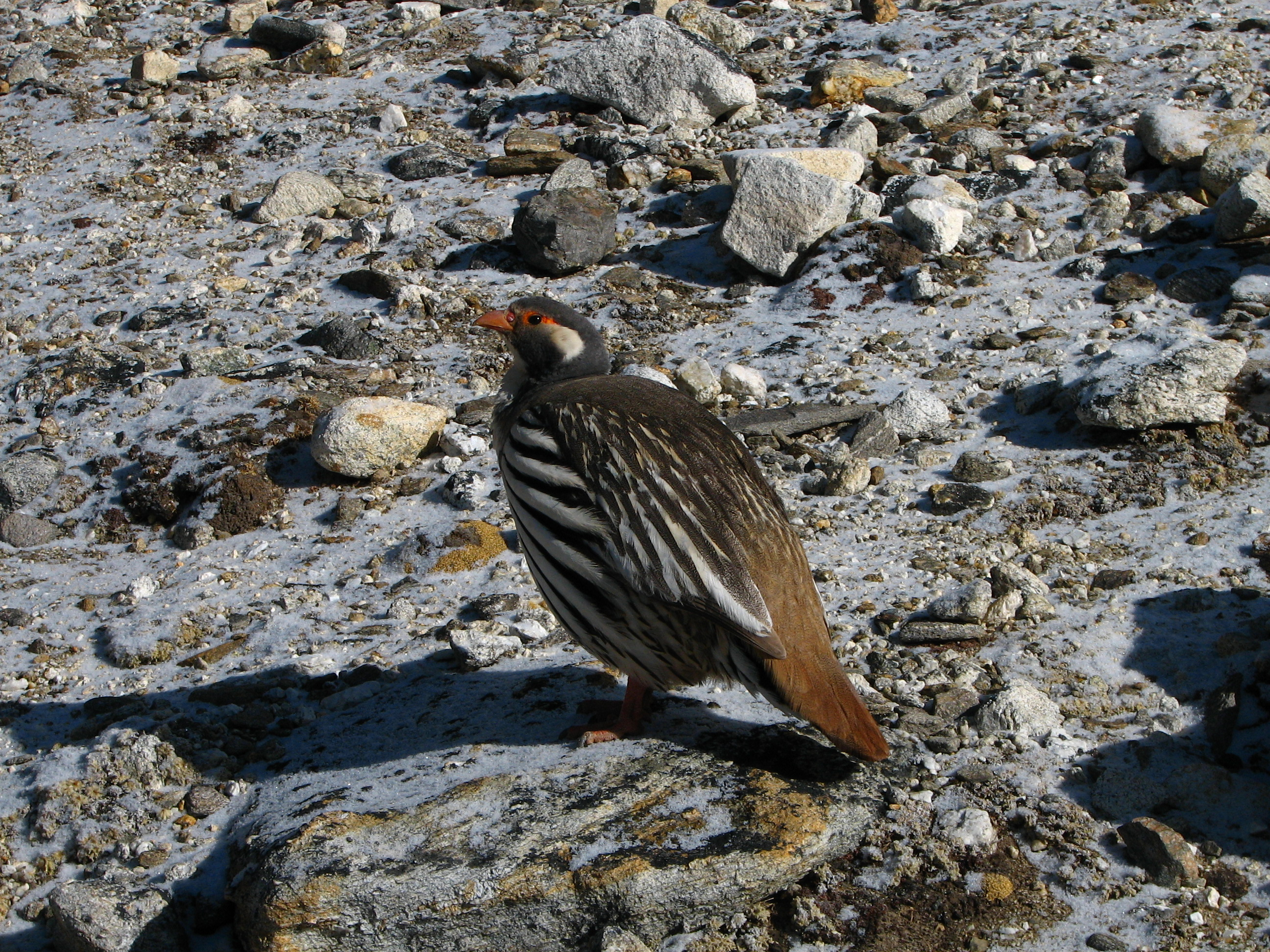 Tibetan Snowcock Tetraogallus tibetanus, Sagarmatha, Nepal 27°59'13"N 86°49'46"E, 5300m altitude.